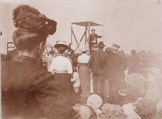 Willem Banning (1888-1971), during a meeting of the Free Christian Student Council (VCSB) (1911, possibly a Pentecost meeting). Banning was a christian-socialist, vicar, politician (SDAP, PvdA) and professor in social theology (Leiden University).